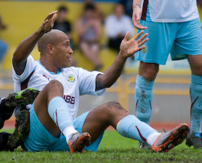 Chris Iwelumo. Image cropped from original at flickr.